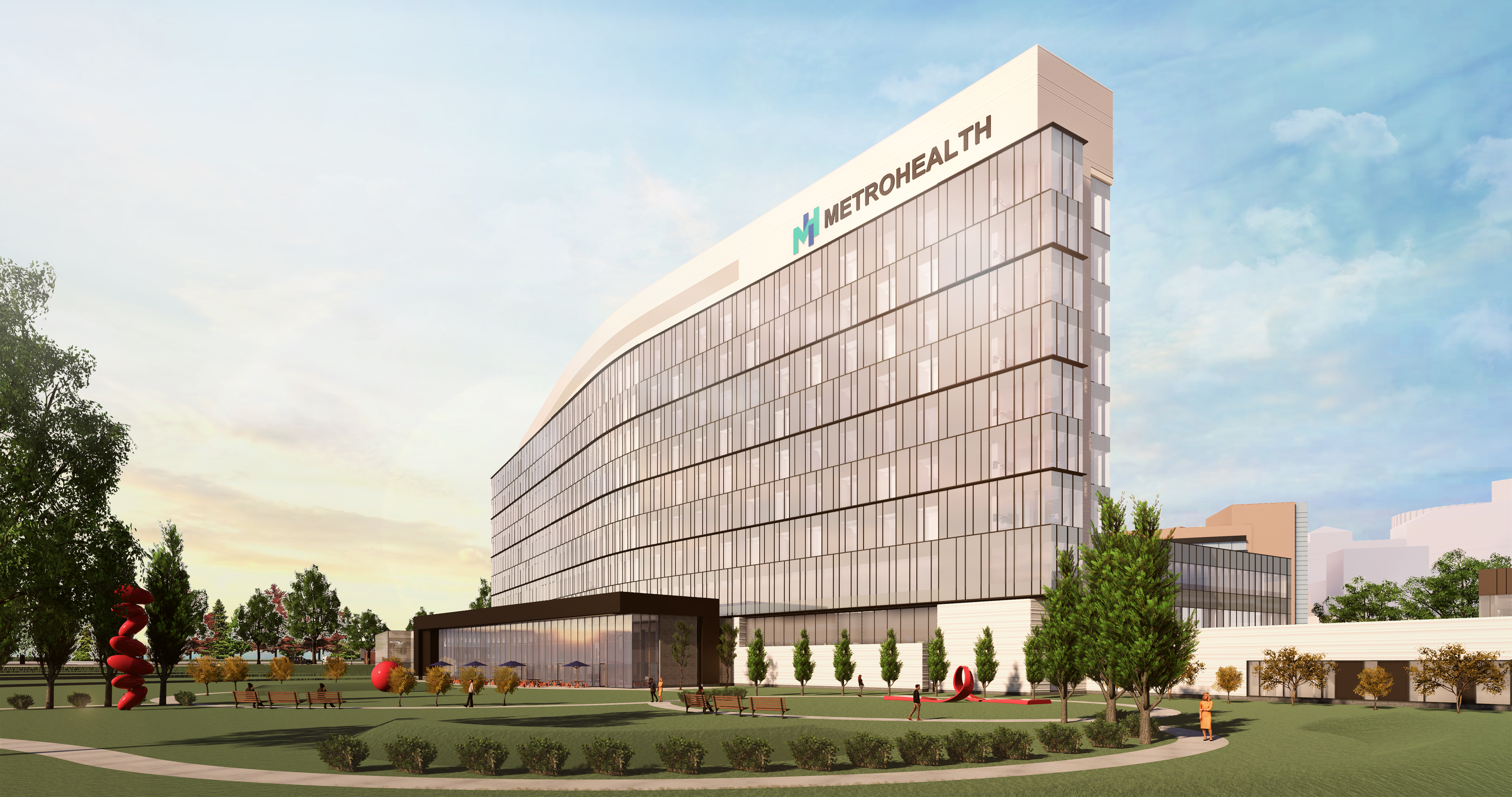 A rendering showing the design of MetroHealth's new Main Campus hospital, which is currently under construction in Cleveland. The hospital is scheduled to be completed in 2022.